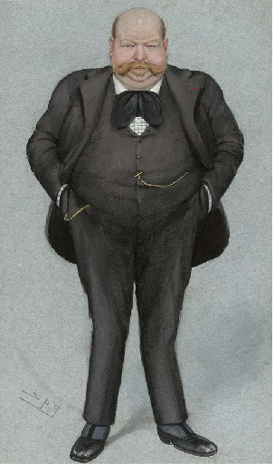 Caricature of Arthur de Rothschild. Caption read "Eros". Accompanying biography in Vanity Fair read "He is very well-known in Paris, and even more so at Monte Carlo. He owns a beautiful yacht called Eros, upon which he 'does' many parties very well. He is enormously rich; and he is quite partial to the Board of Green Cloth. He is very fond of Art; and he is quite good natured".